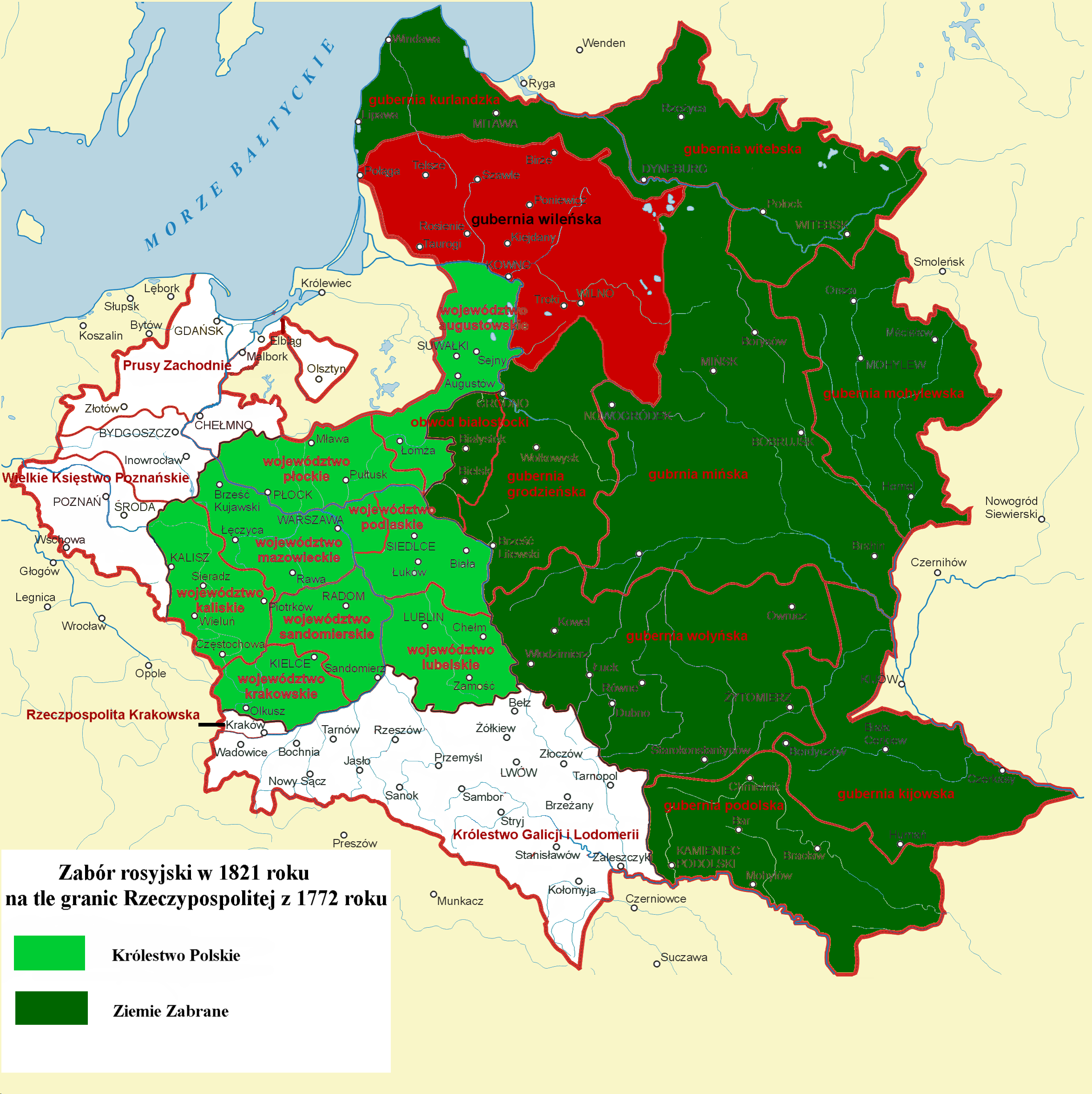 Vilnius Governorate in 1821